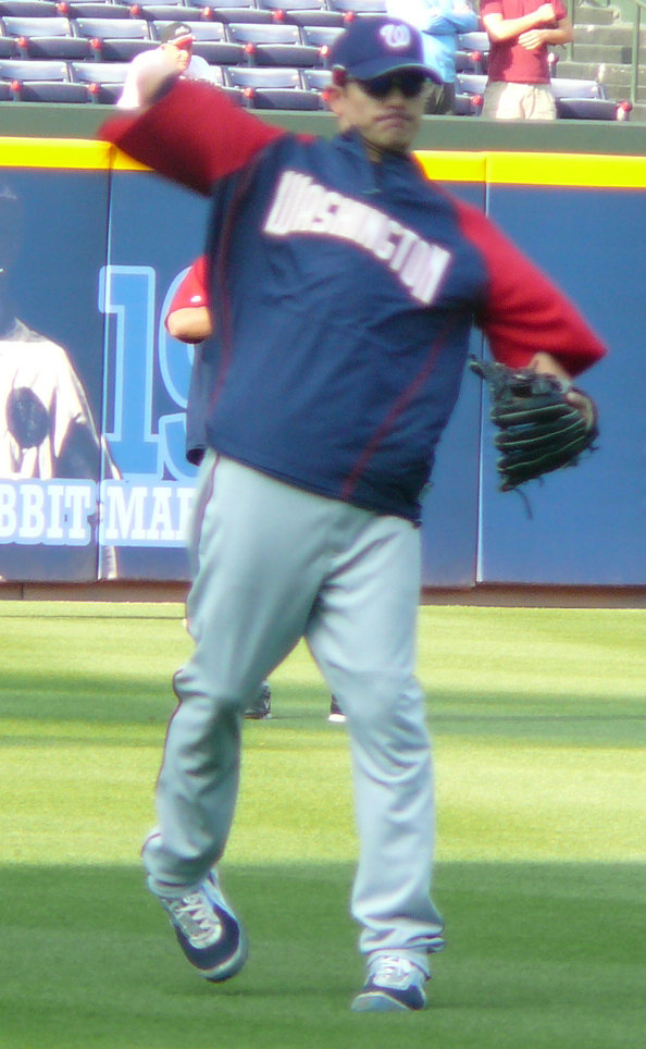 User:Chrisjnelson agreed to license this image of Rob_Mackowiak.jpg under a free attribution license. Any use of this image must be attributed; this means that Photo by :en:User:Chrisjnelson|Chris Nelson should be in the picture caption. 07:37, 24 April 2008 . . Chrisjnelson . . 594×964 (482 KB)